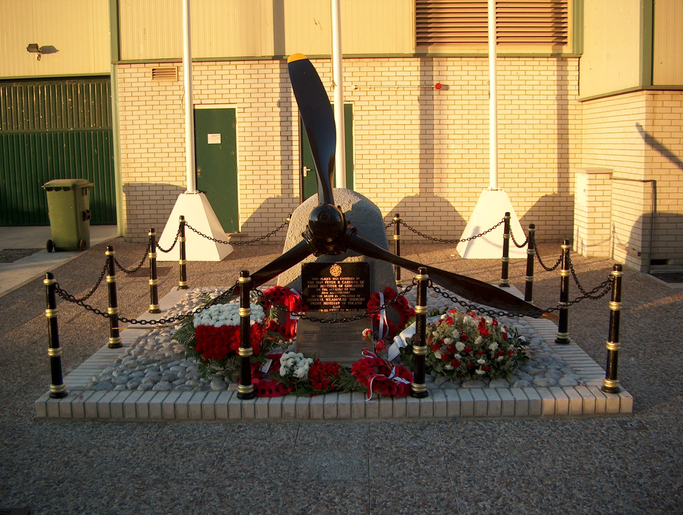 Note that the memorial was moved in July 2013 to Europa Point. See Memorial to General Wladislaw Sikorski, Europa Point, Gibraltar